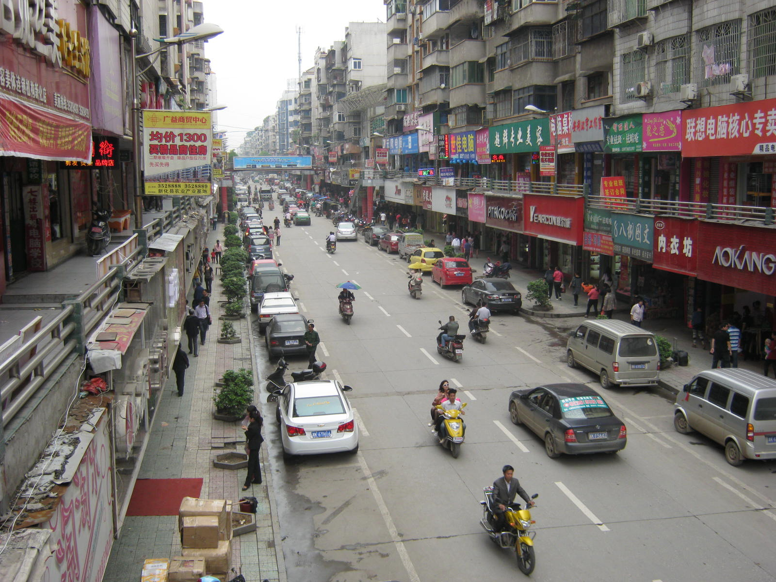 Xinhua, Hunan Province. Tianhuanan Road (天华南路)